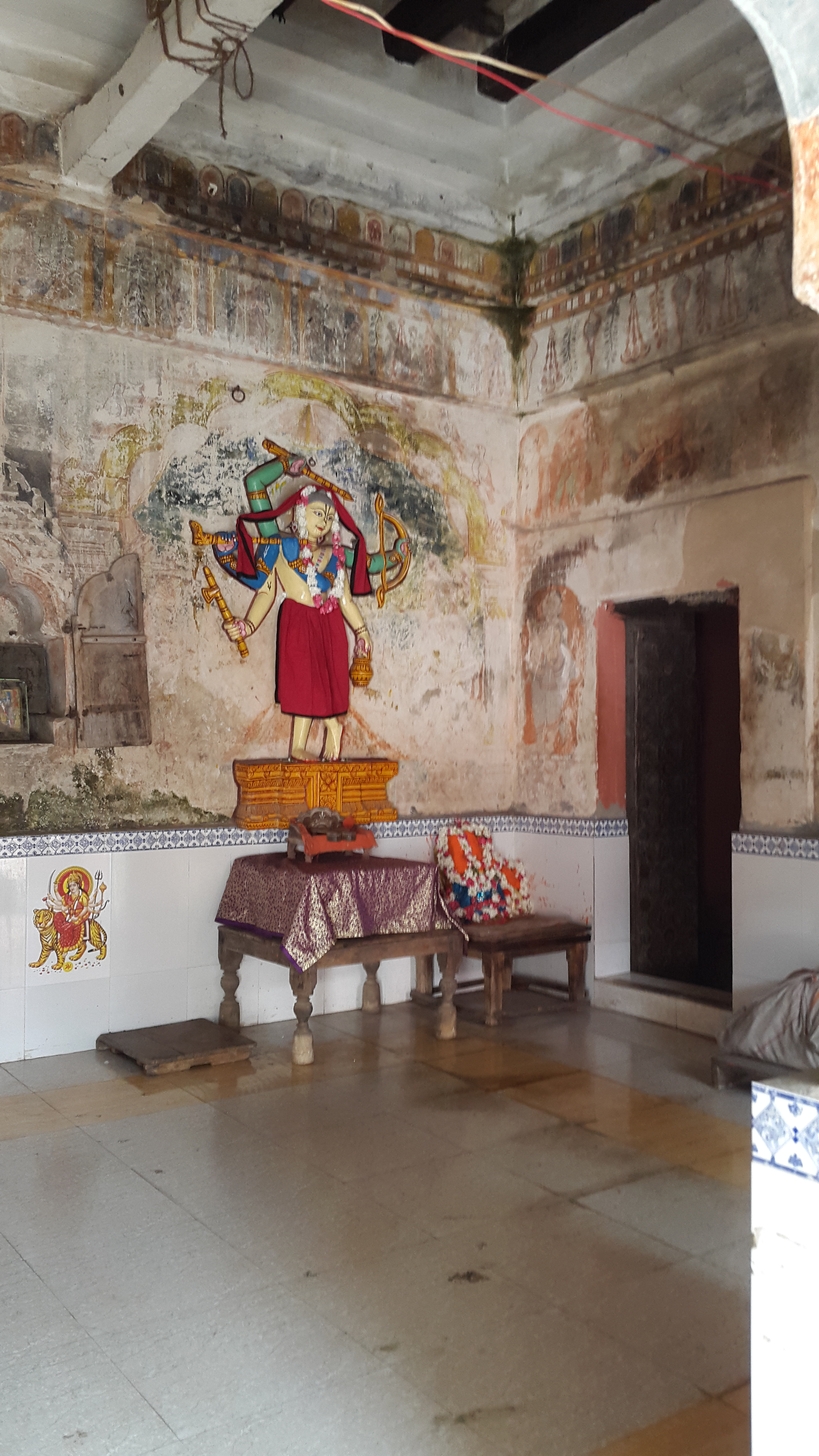 Idol of shadabhuja gauranga at ganga mata math in puri